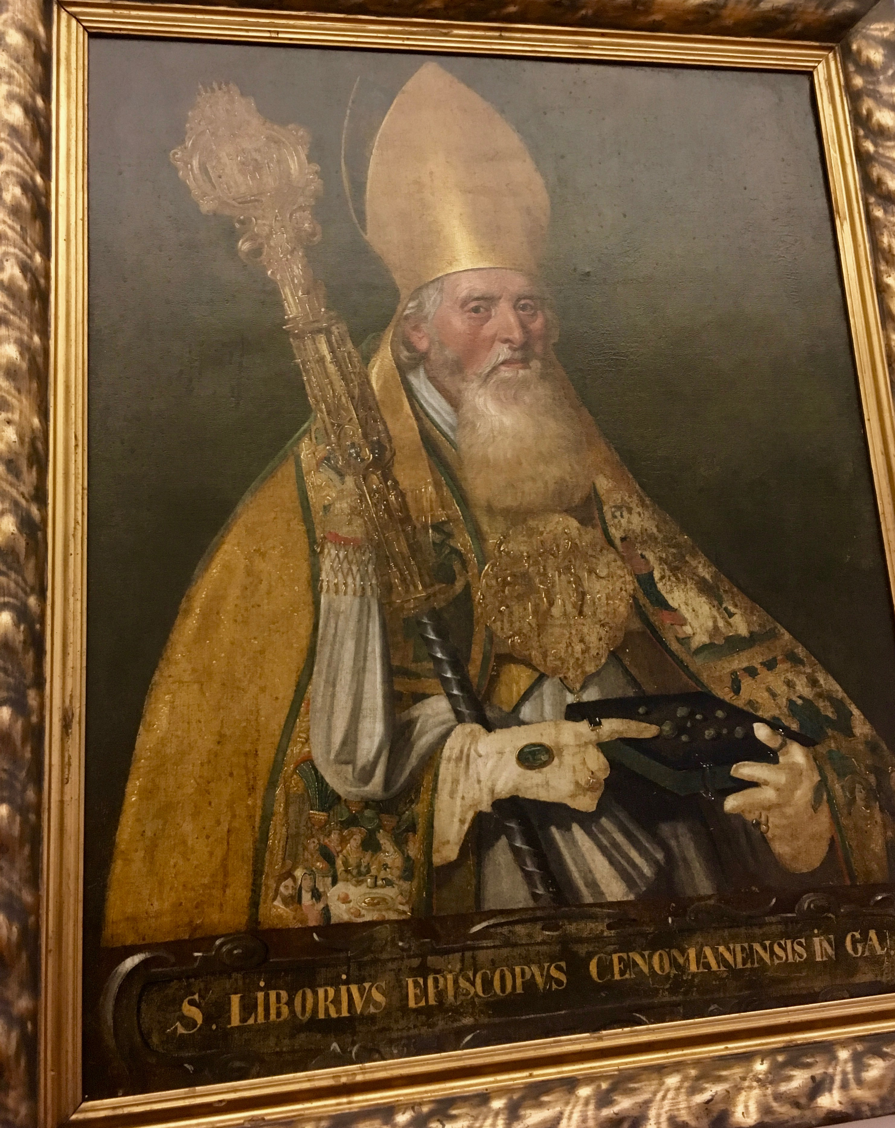 Portrait of Liborius of Le Mans with inscipt "St. Liborius Episcopus Cenomanensis in Gallia", Diocesan chancery Paderborn